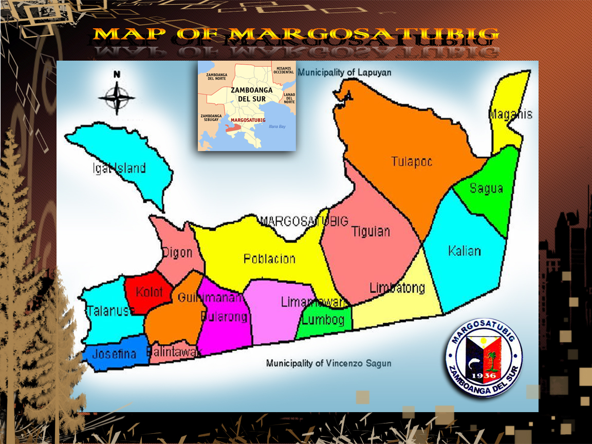 This is an edited Map of Margosatubig....With its Seal And Location from Zamboanga del Sur Province.t